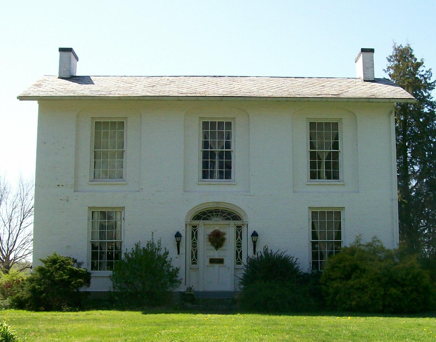 The Col. Joseph Barker House in Devola, Ohio. The house is photographed from its eastern exposure on Masonic Park Road. On the NRHP for Washington County, Ohio. Taken 04-10-2010.